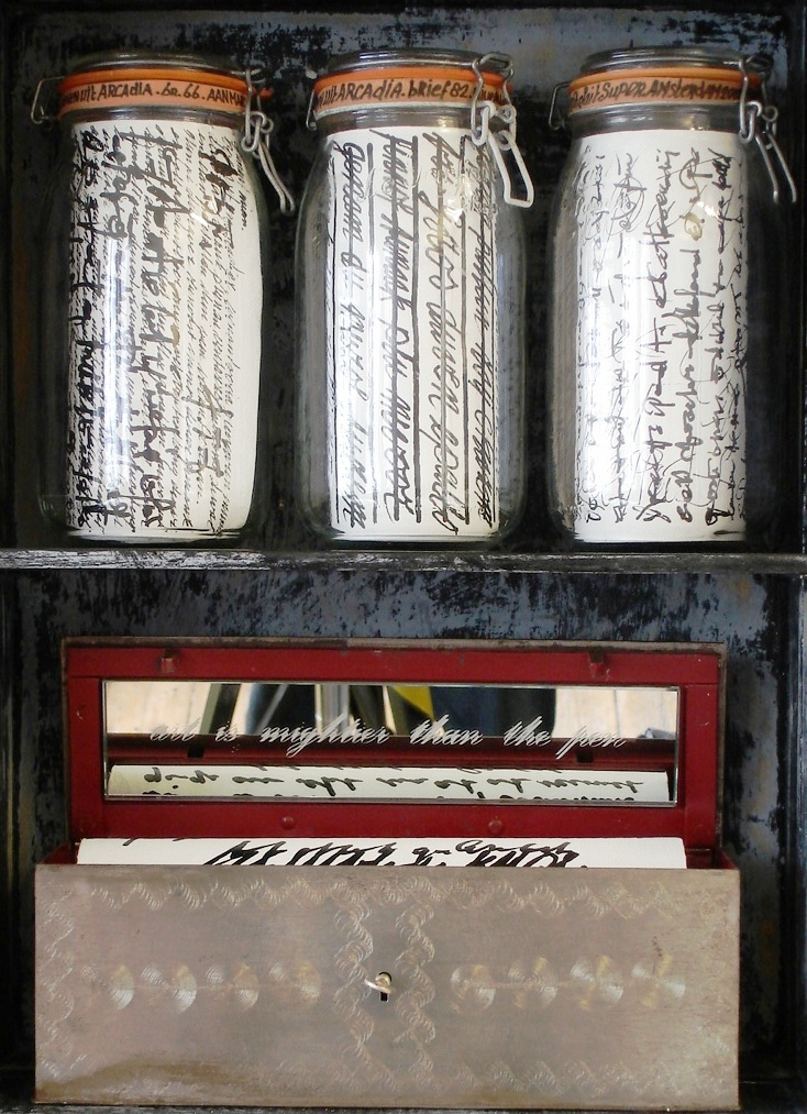 This artwork, created by PINK de Thierry, is part of her ongoing series "Letters to Family" which started in 1998 addressing artists as Samuel Beckett, Franz Kafka, Velimir Khlebnikov, James Lee Byars, Louis-Ferdinand Céline, Joseph Beuys, Piet Mondriaan, Kazimir Malevich, Marcel Broodthaers, Alberto Giacometti and The Unknown Artist. This artwork addresses Marcel Broodthaers, a house friend during PINK's years in Brussels the 1960th.